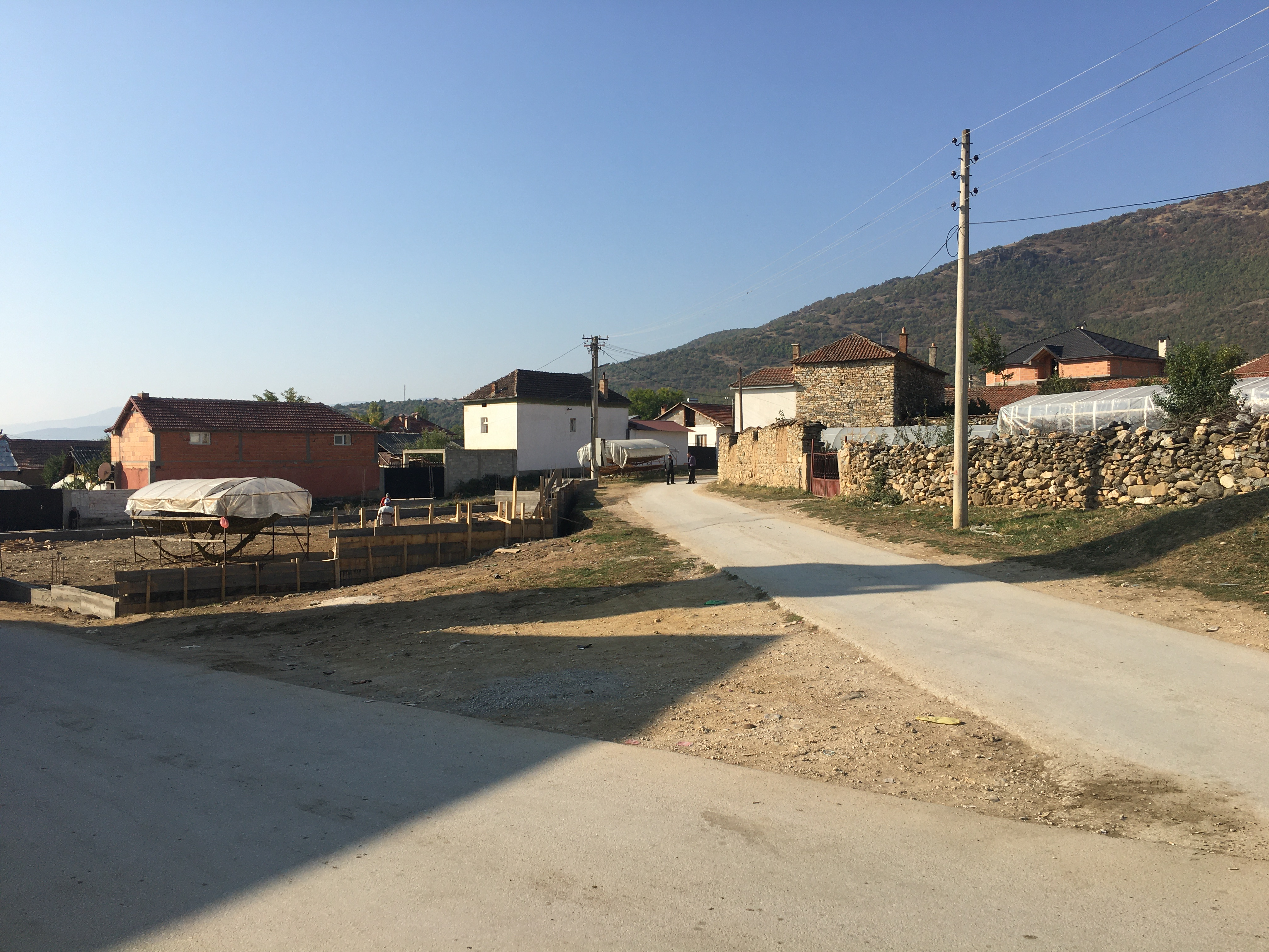 A mahalla in the village of Debrešte